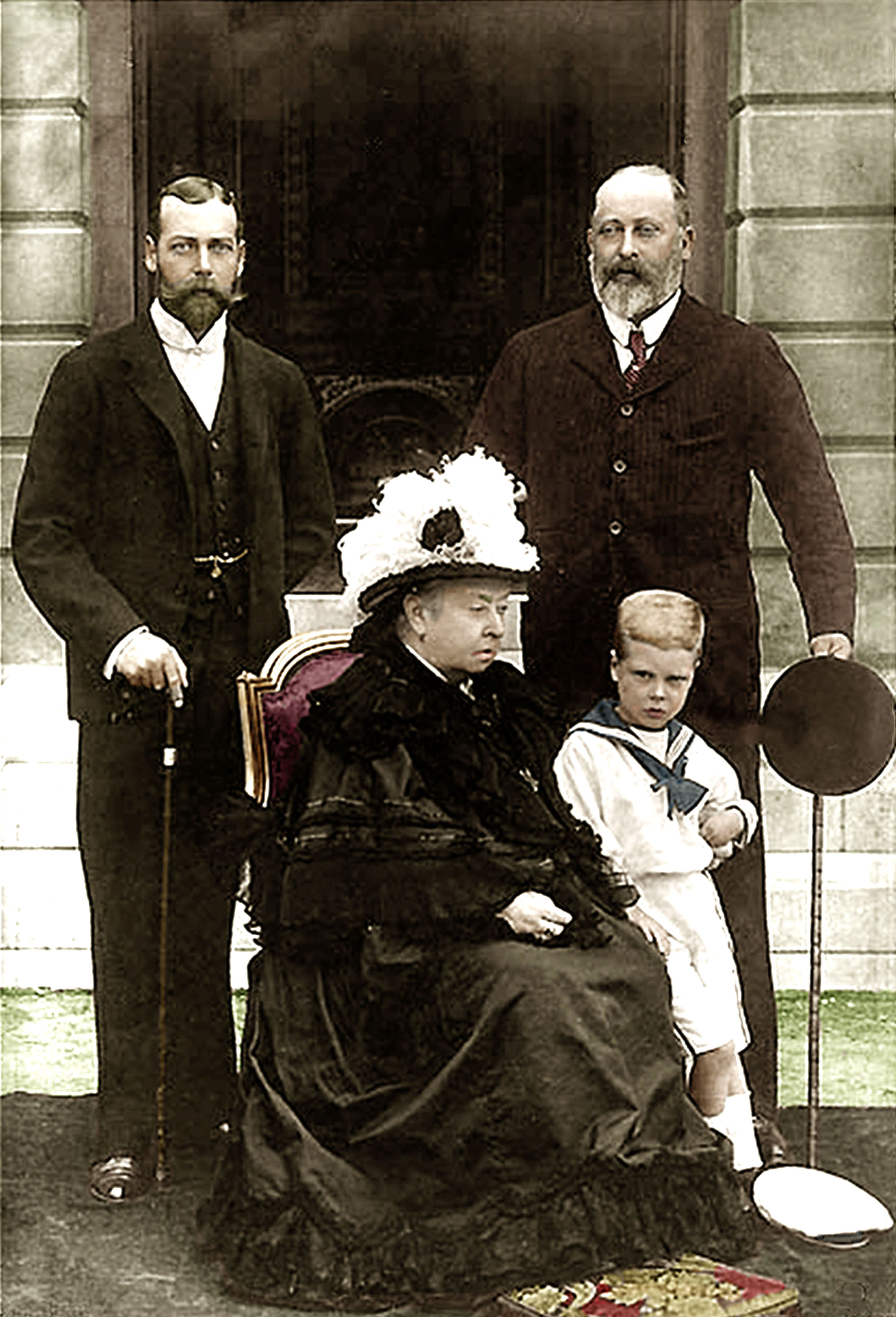 'Four Generations' Prince George, Duke of York; Victoria of the United Kingdom; Albert Edward, Prince of Wales (background) and Prince Edward of York (foreground)